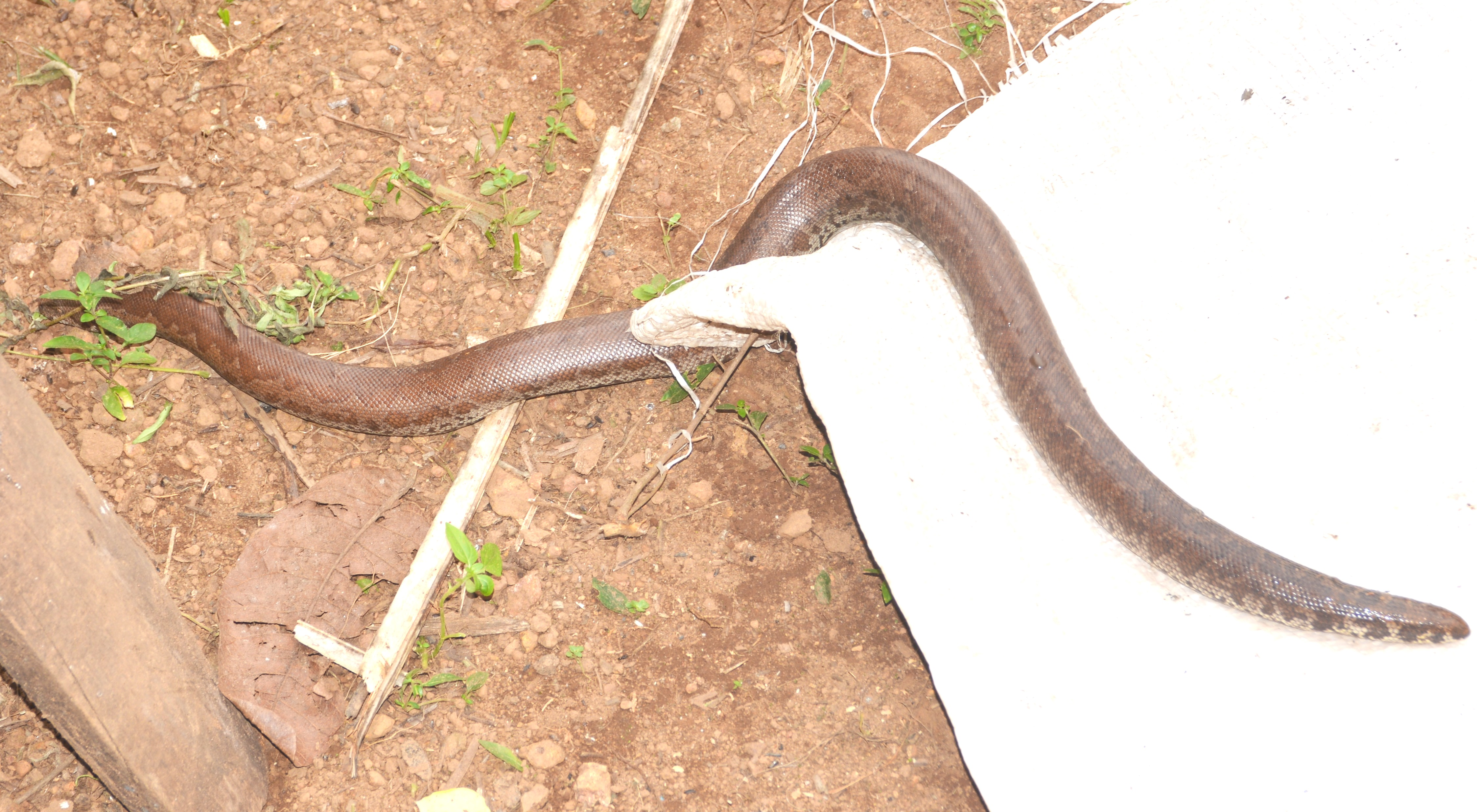 Eryx johnii